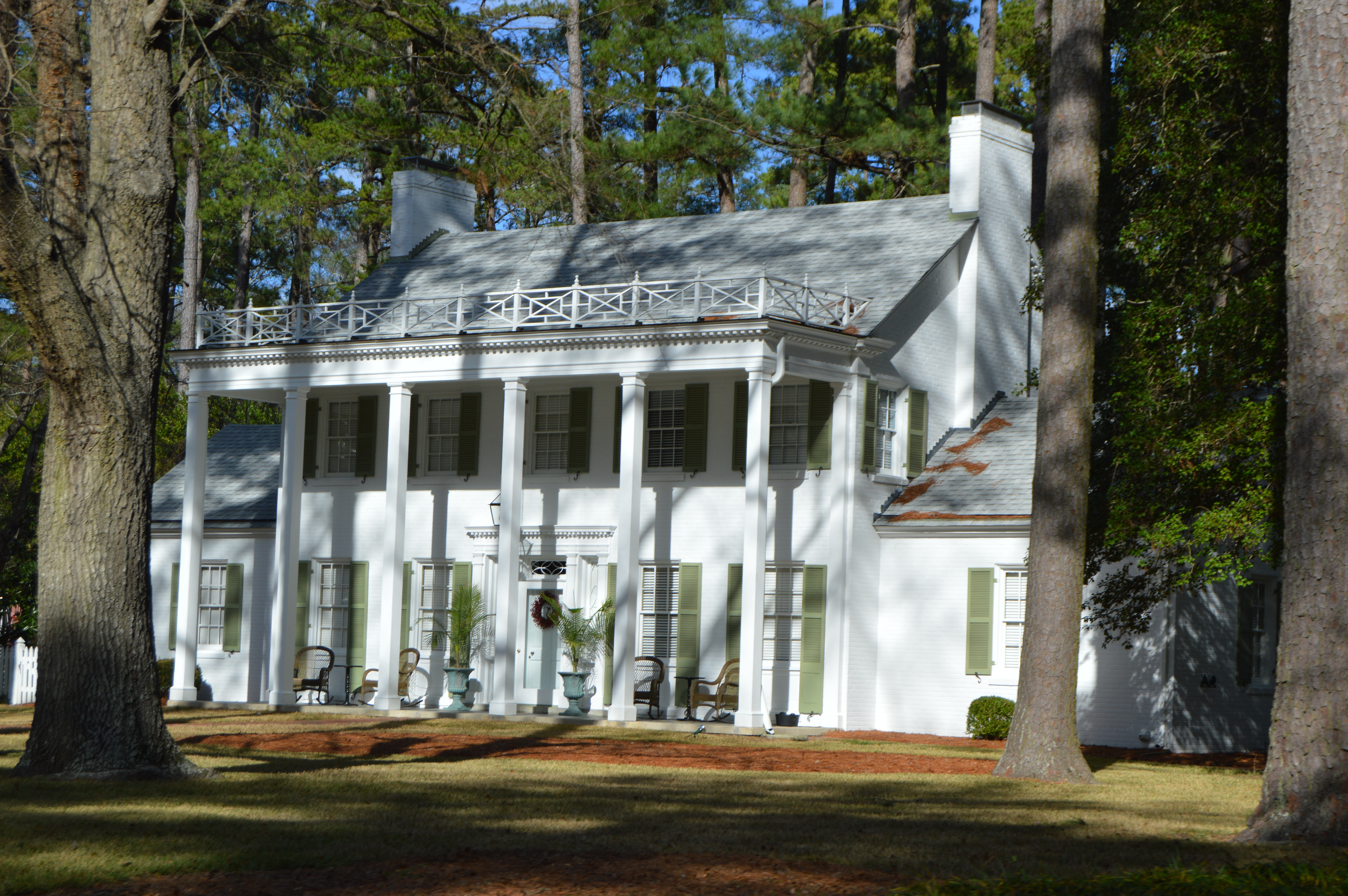 Front and southeastern side of the house located at 1512 West Haven Boulevard in Rocky Mount, North Carolina, United States. It and its neighbors are part of the West Haven Historic District, a historic district that is listed on the National Register of Historic Places.